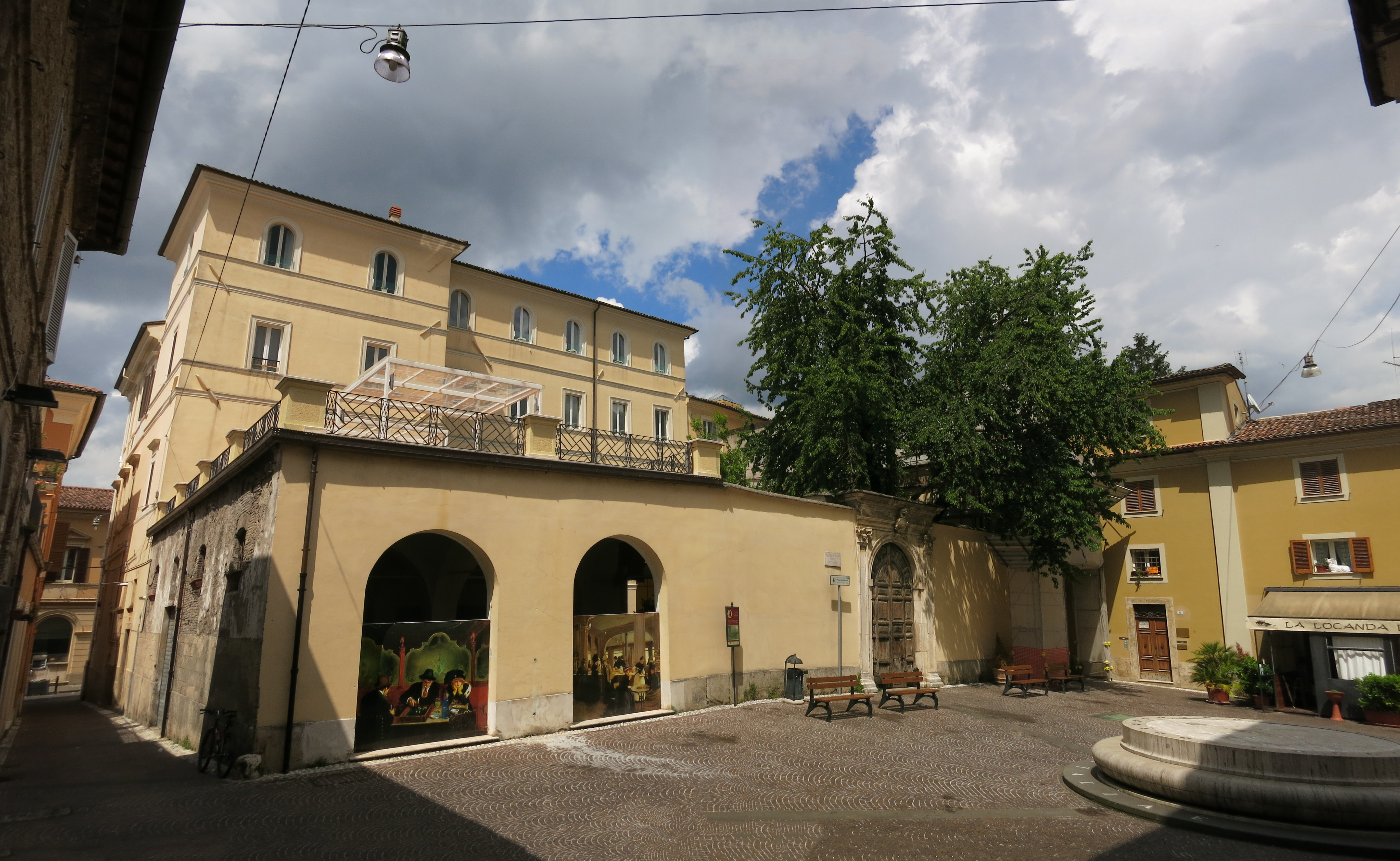 Panorama of Saint Rufus square (Rieti, Lazio, Italy), considered to be the center or "navel" of Italy, taken from the side of the church